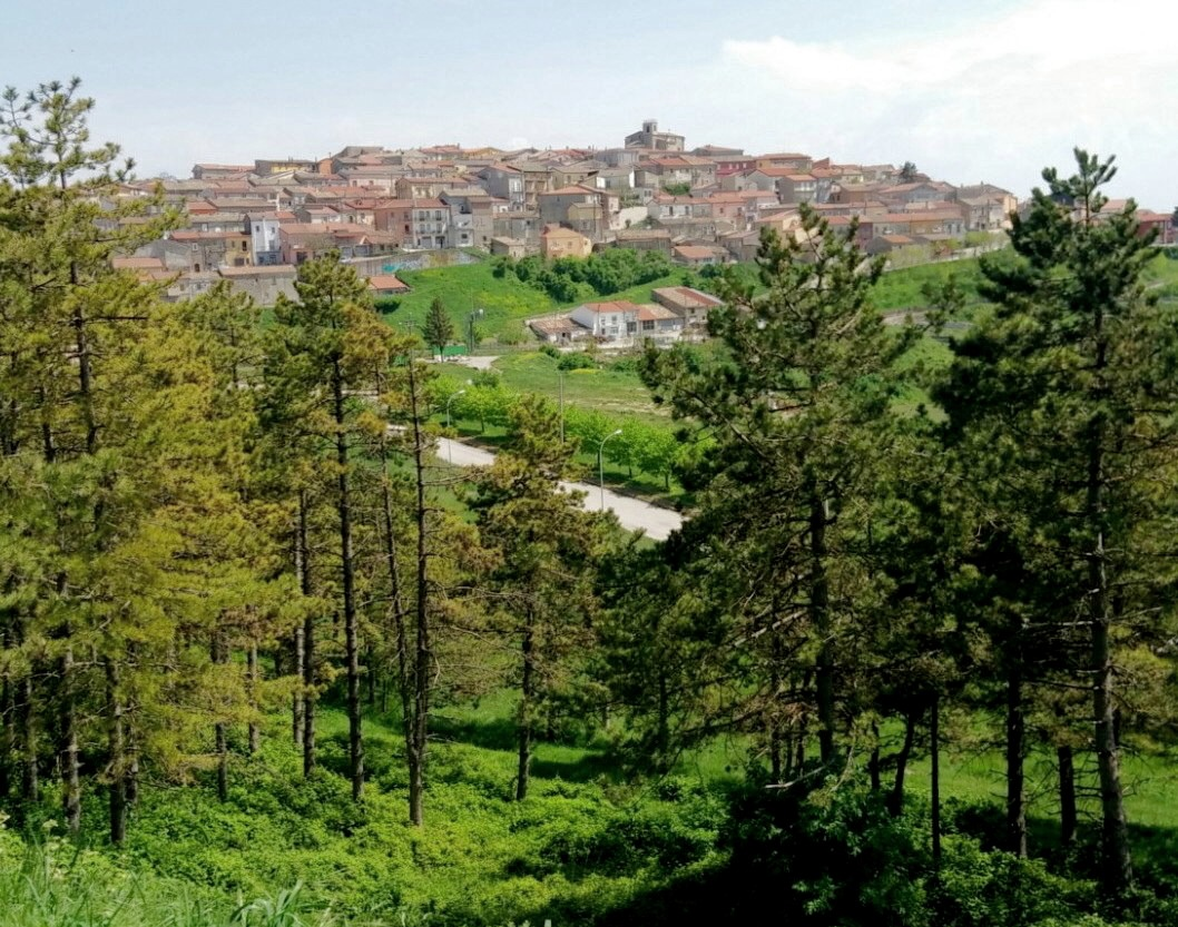 Panoramic view of Greci, Italy